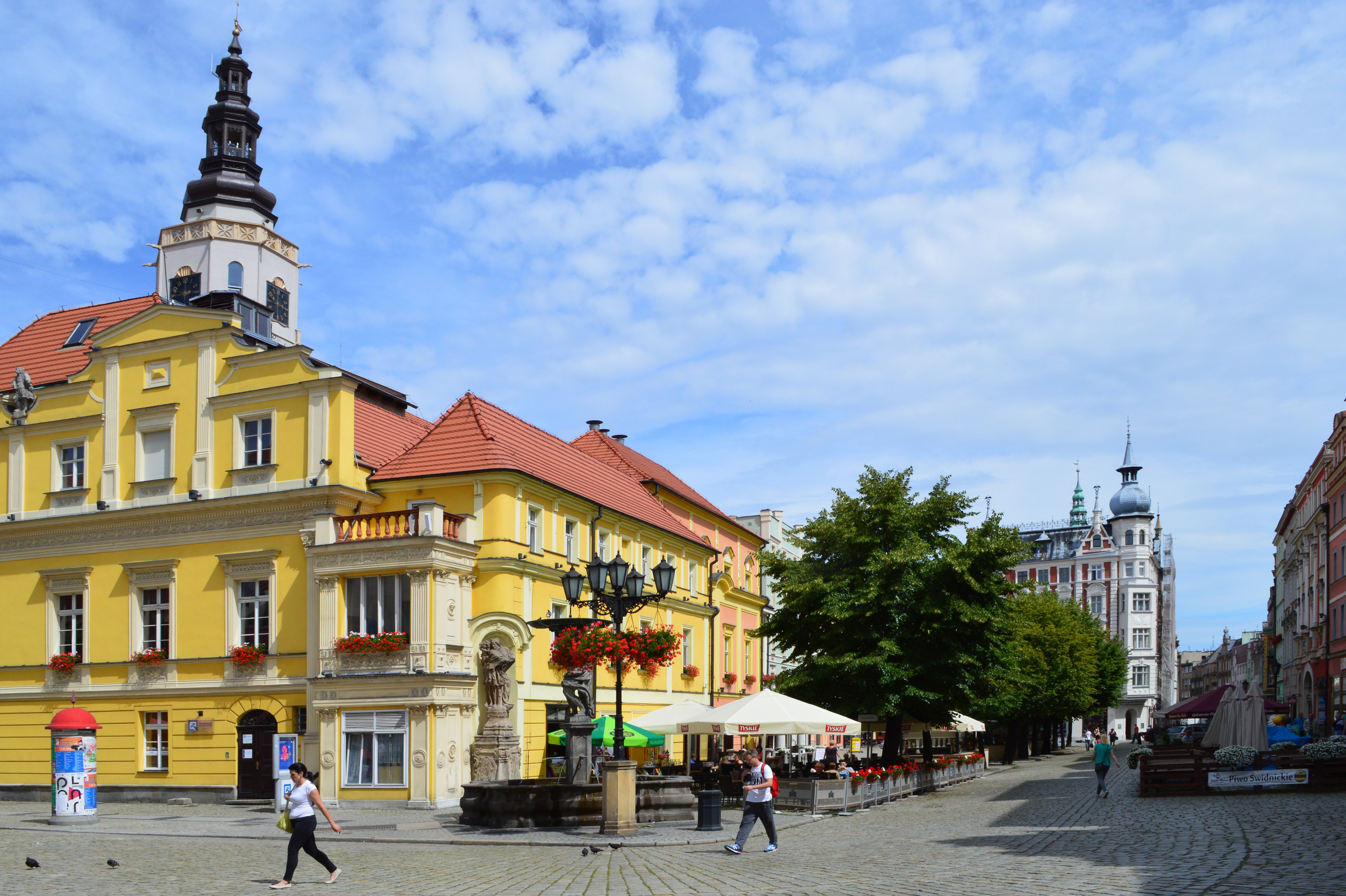 Świdnica is a city in Silesia in south-western Poland. It lies in the Lower Silesian Region, being the seventh largest town in that region. The Gothic Church of Saints Stanisław and Wacław from the fourteenth century has the highest tower in Silesia, standing 103 meters tall. The Evangelical Church of Peace, a UNESCO Heritage site, was built from 1656–57. The sixteenth century Town Hall has been renovated numerous times and combines Gothic, Renaissance, and Baroque architectural elements. The Scotch Mist Gallery contains many photographs of historic buildings, monuments and memorials of Poland.